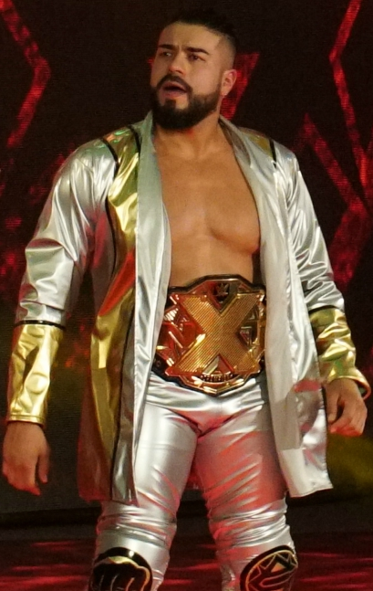 Andrade Cien Almas at NXT TakOver New Orleans in April 7, 2018